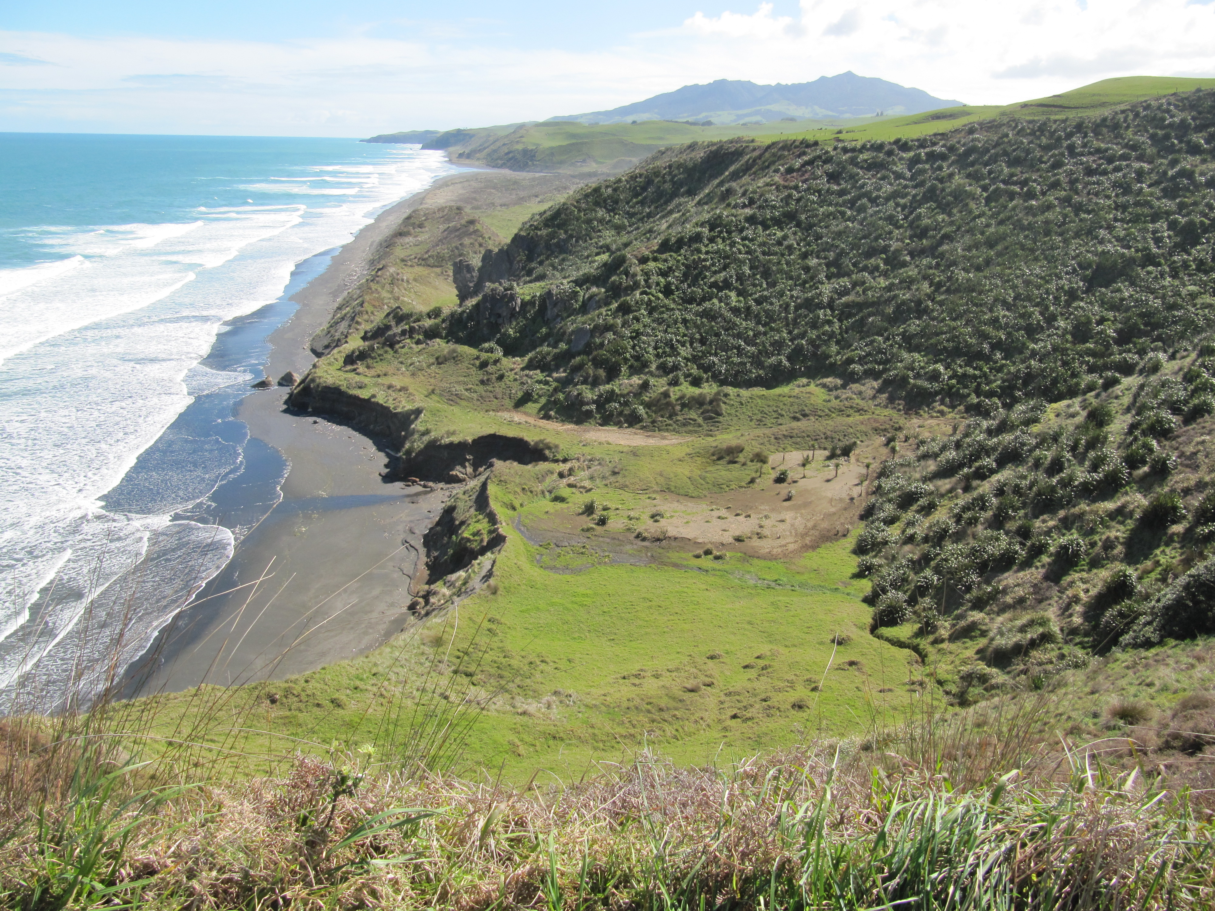 over 7km of beach